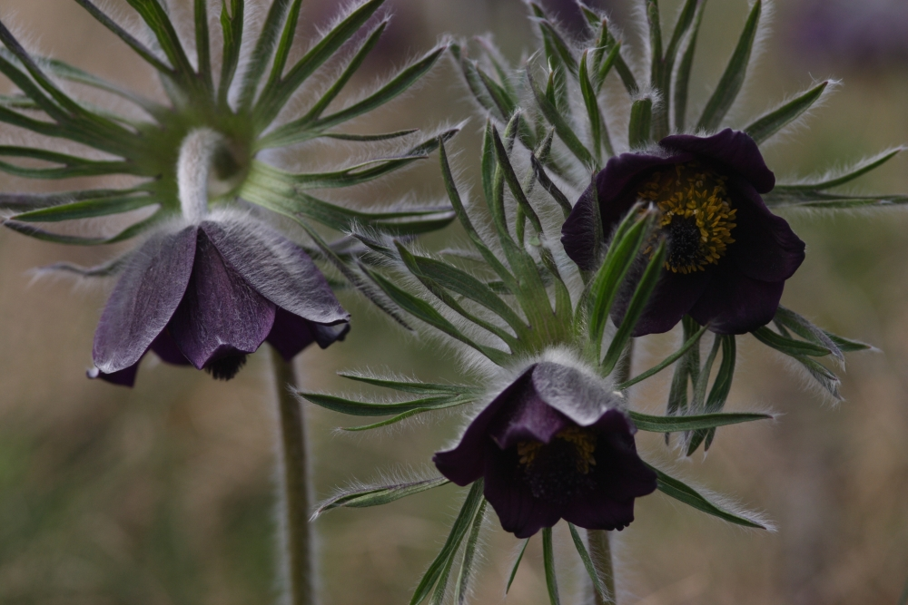 Pulsatilla pratensis subsp. nigricans, Fertőrákos, Hungary